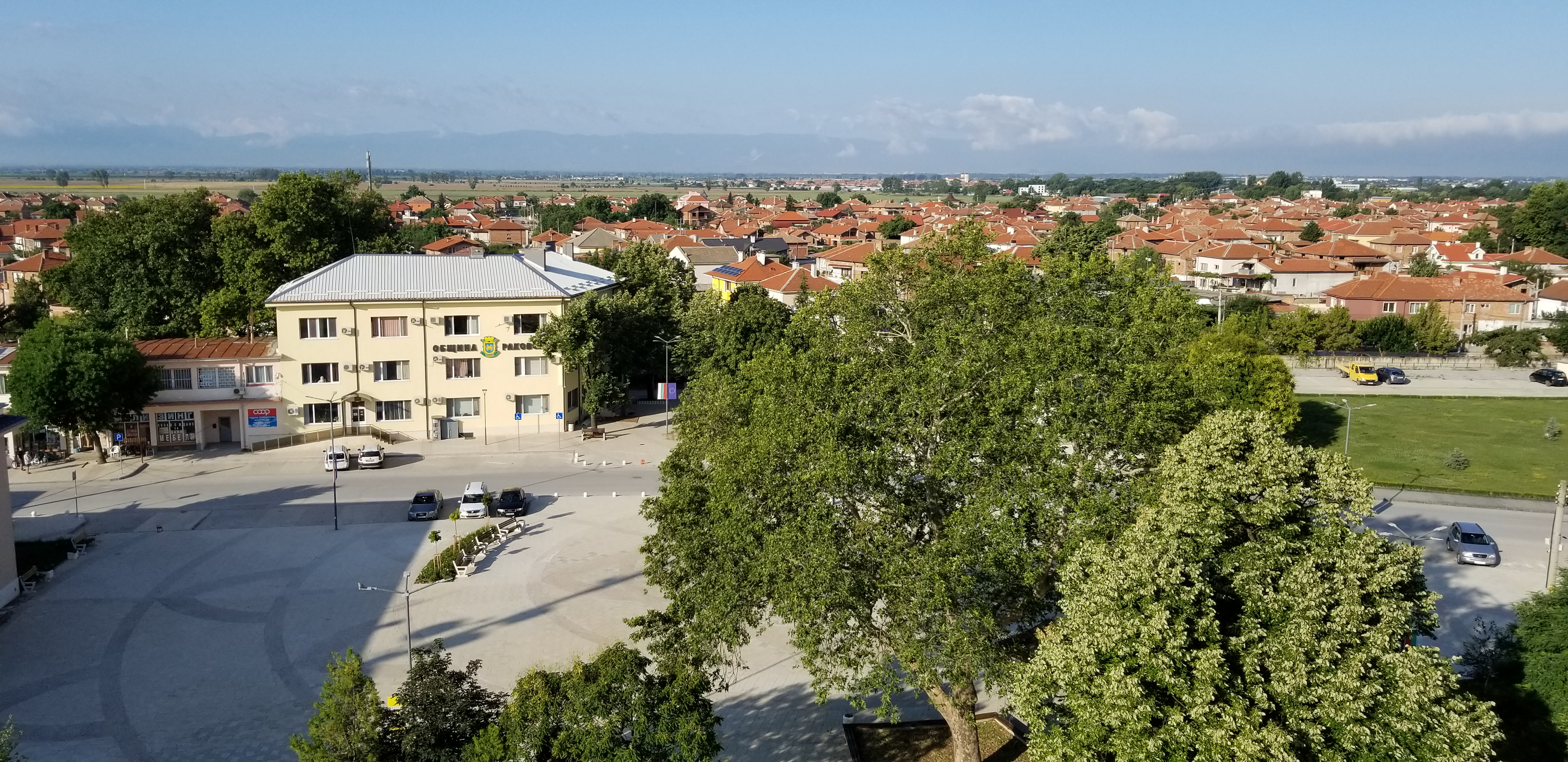 General Nikolaevo quarter view